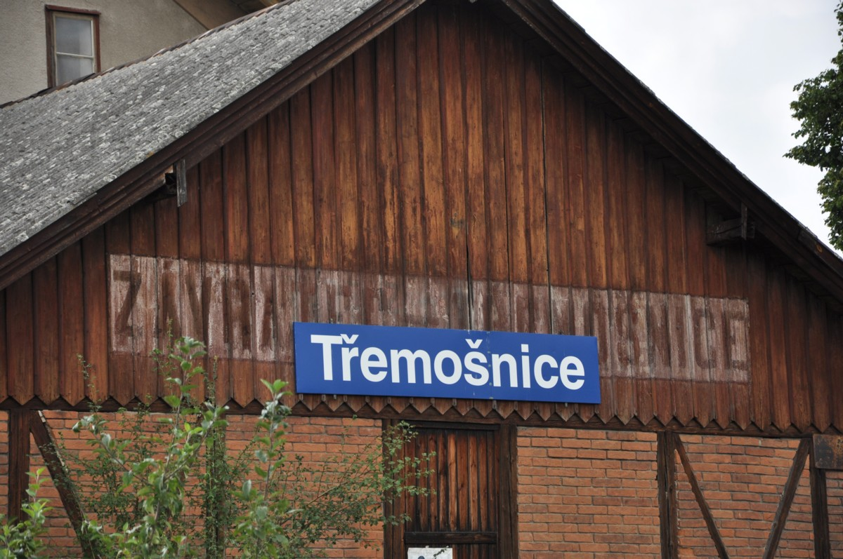 station Třemošnice, Czech republic